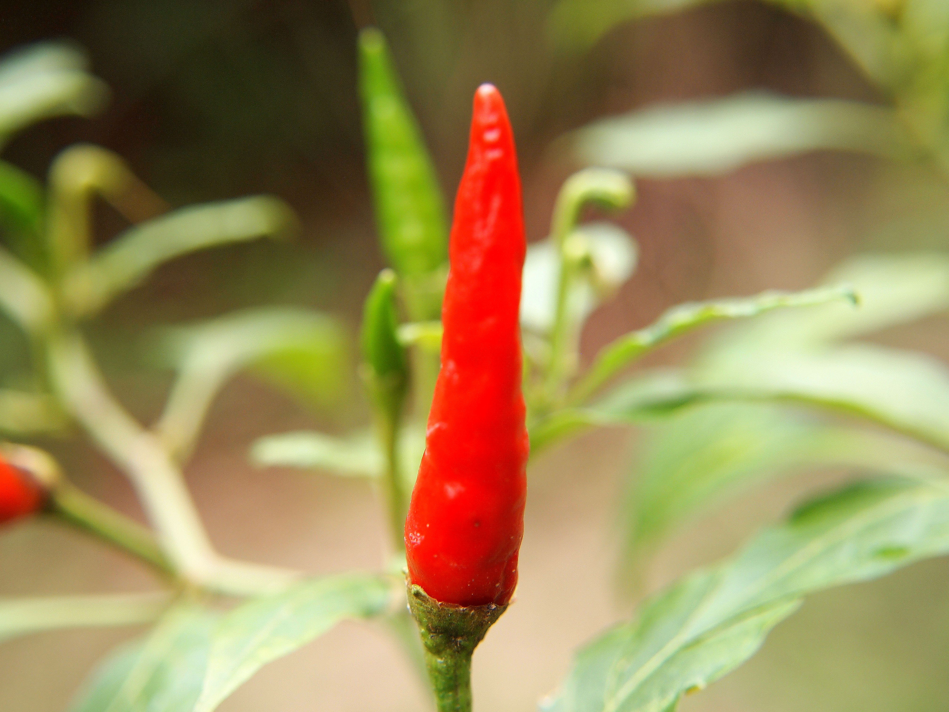 A ripe capsicum in Malaysia